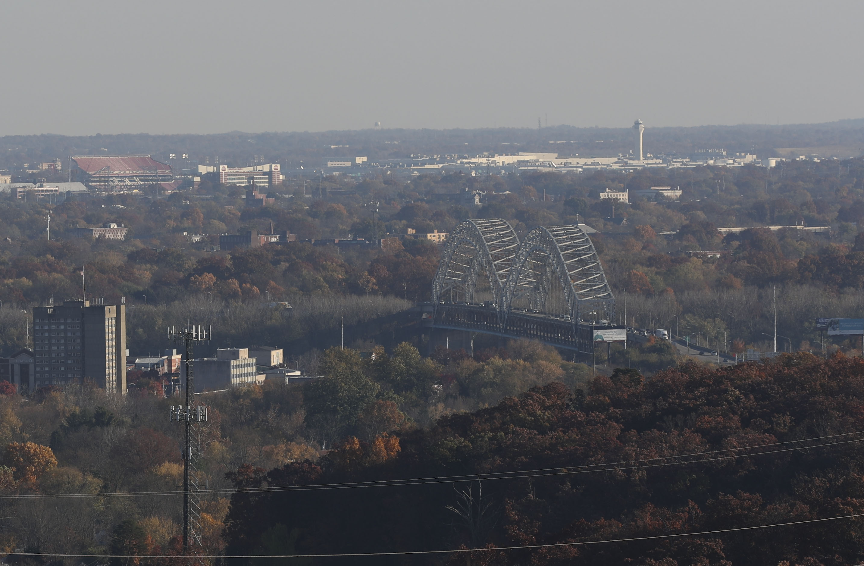 The view of the Sherman Minton Bridge from Floyds Knobs, Indiana. Downtown New Albany is at right. Further in the background is Louisville and Papa John's Cardinal Stadium is in the upper left corner.